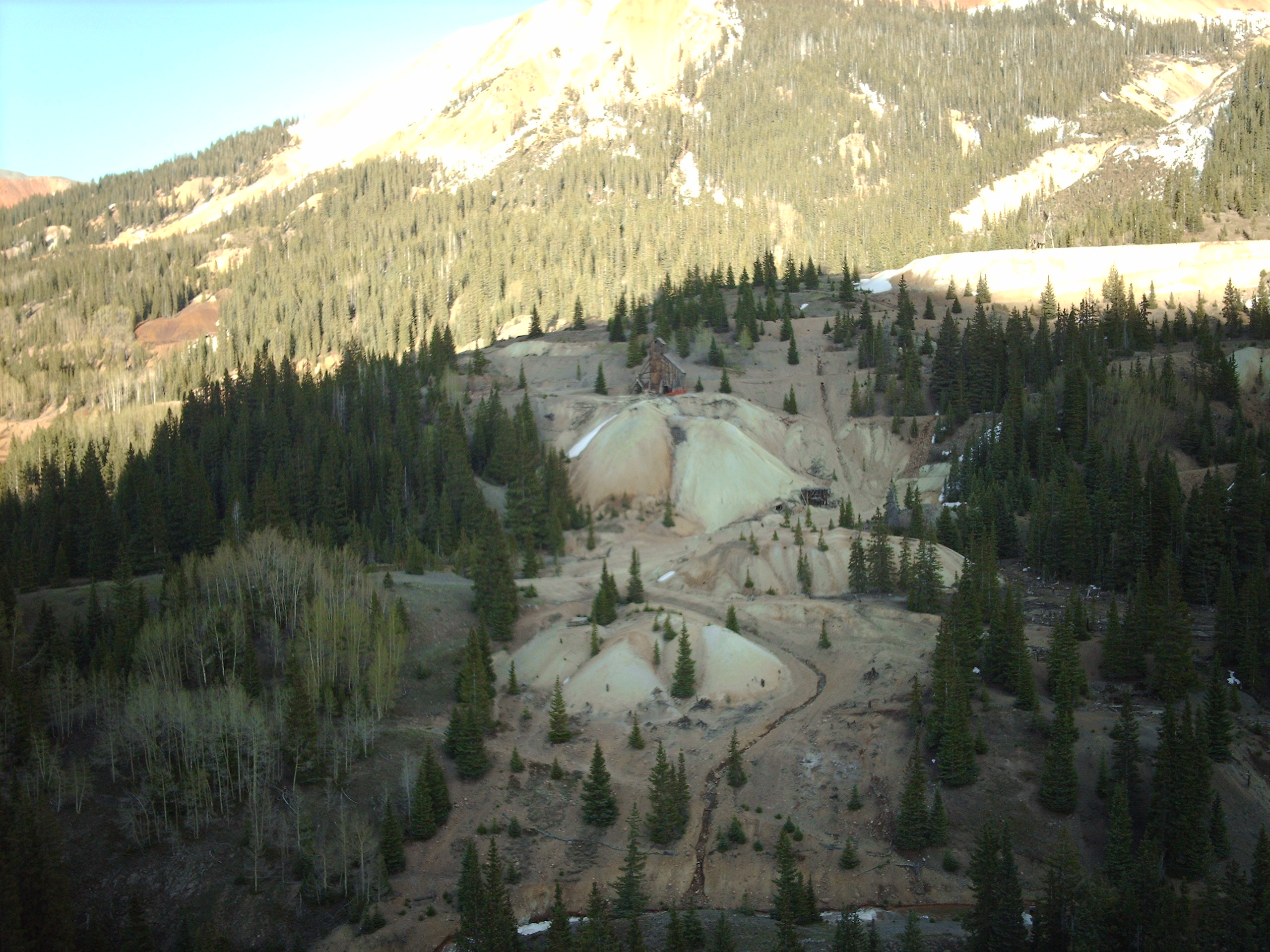 Idarado Mine slag. Taken by me.